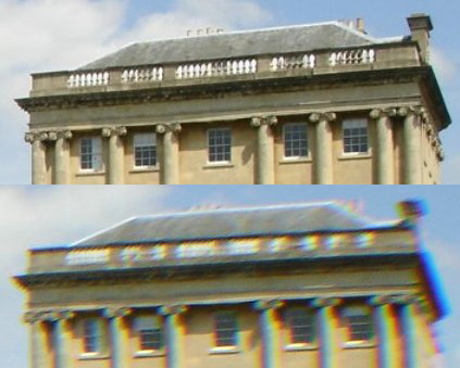 Chromatic aberration. Top image shows a photo taken with a built-in lens of digital camera (Sony V3). Bottom photo taken with the same camera, but with additional wide angle lens. The effect of aberration is visible around the dark edges (especially on the right). The images show only a part of the photo from the corner of the original ones (to emphasize the effect of aberration).